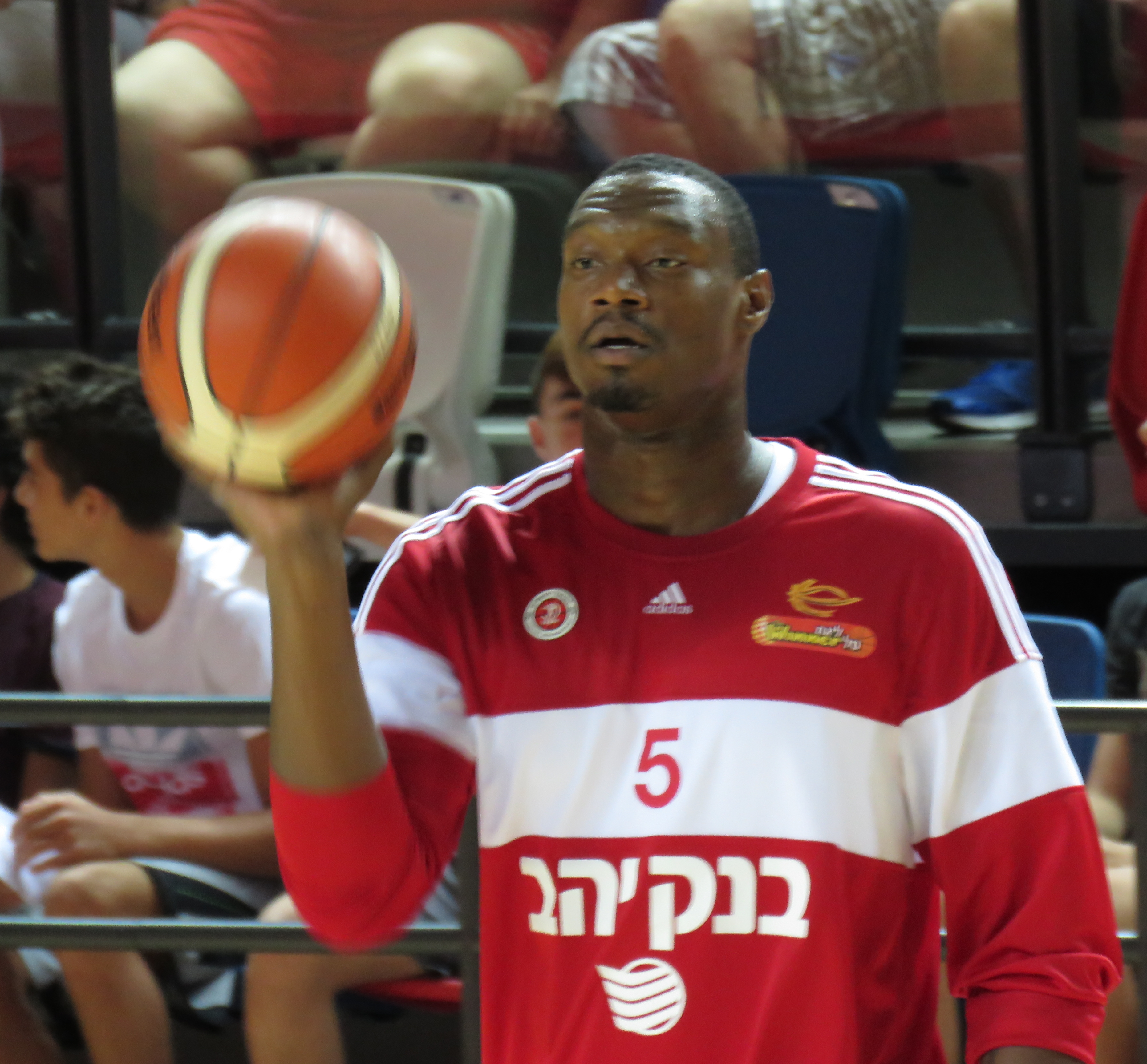 Hapoel Tel Aviv vs. Hapoel Jerusalem, 25 September, 2015